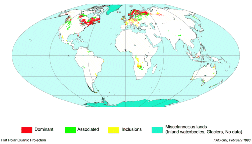 distribution of Podzols